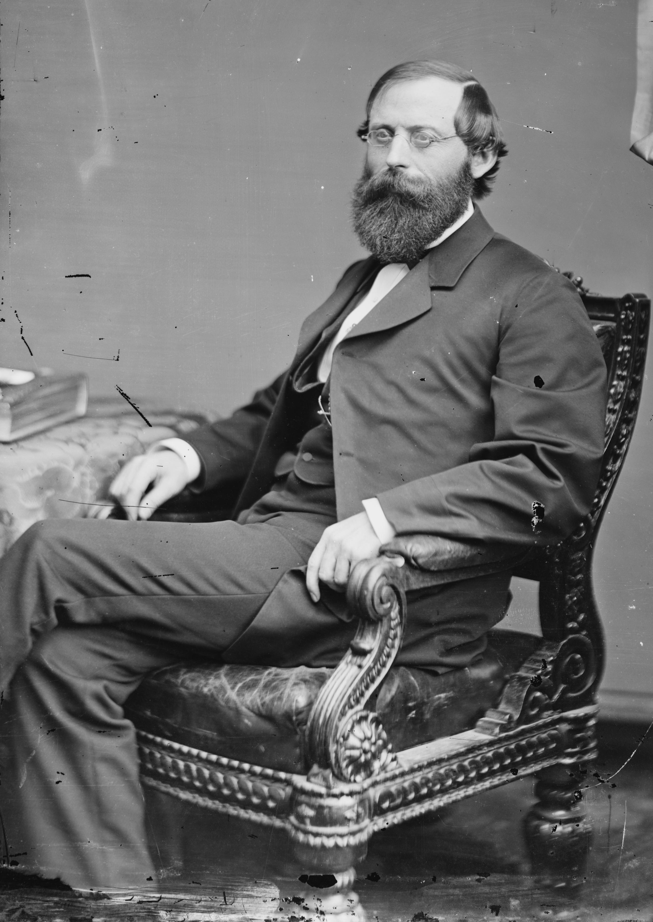 William Henry Koontz. Library of Congress description: "Hon. Wm. Henry Koontz of Pa."